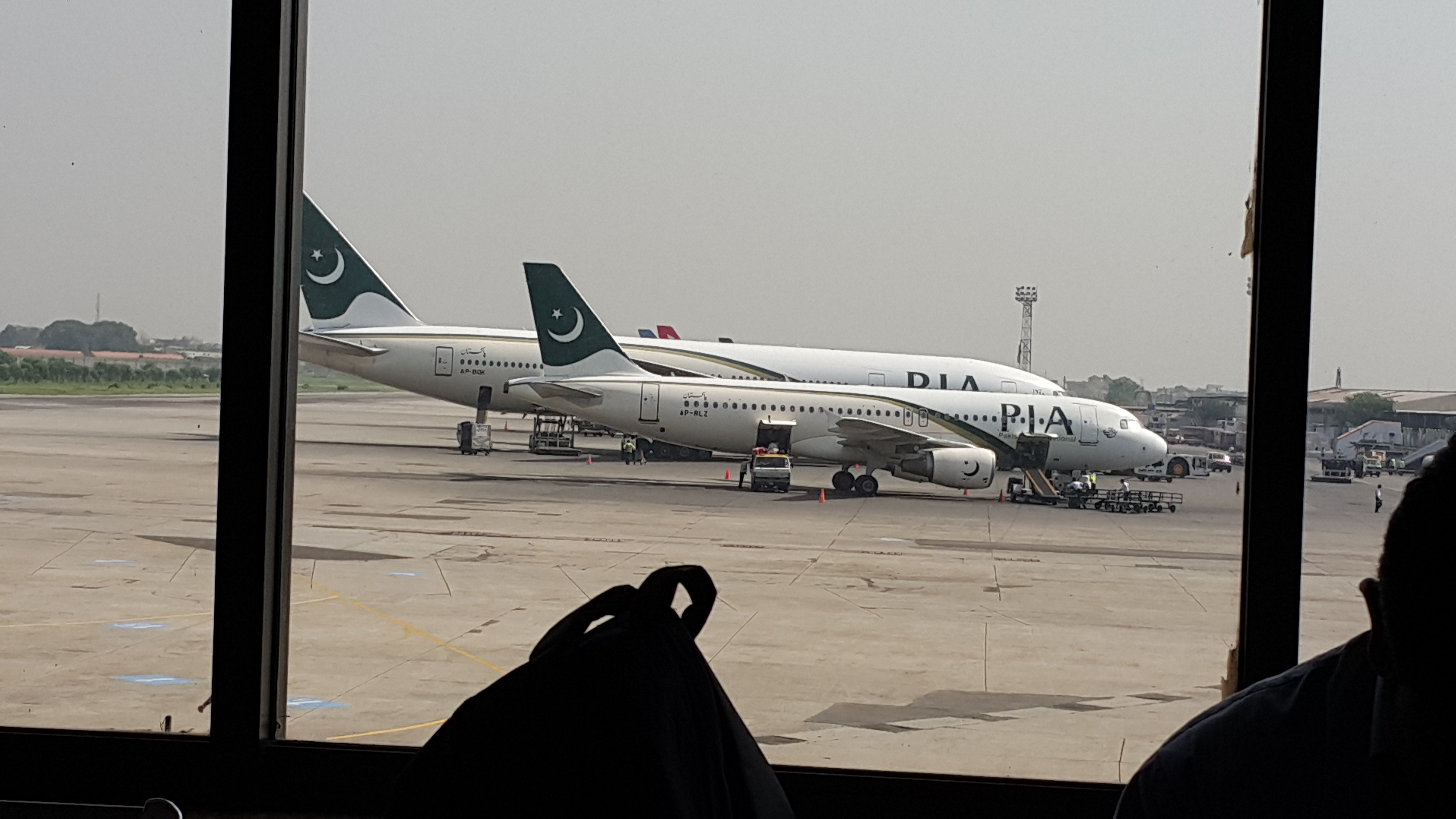 PIA Fleet photographed from BBIA Islamabad